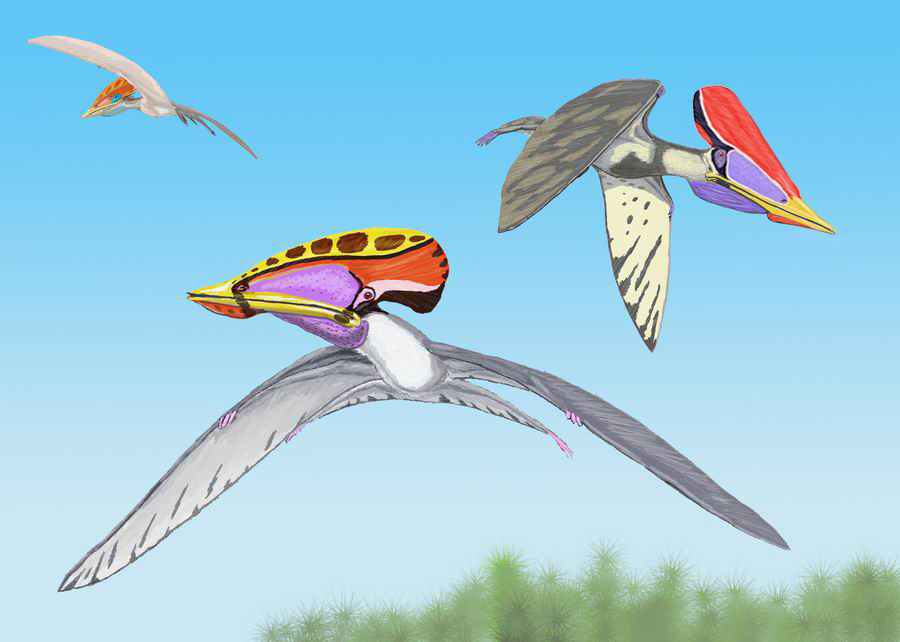 Tupuxuara leonardii and Tupuxuara longicristatus. Tupuxuara. Artist's impression by Dimitri Bogdanov of T. leonardii (left) and T. longicristatus (right).